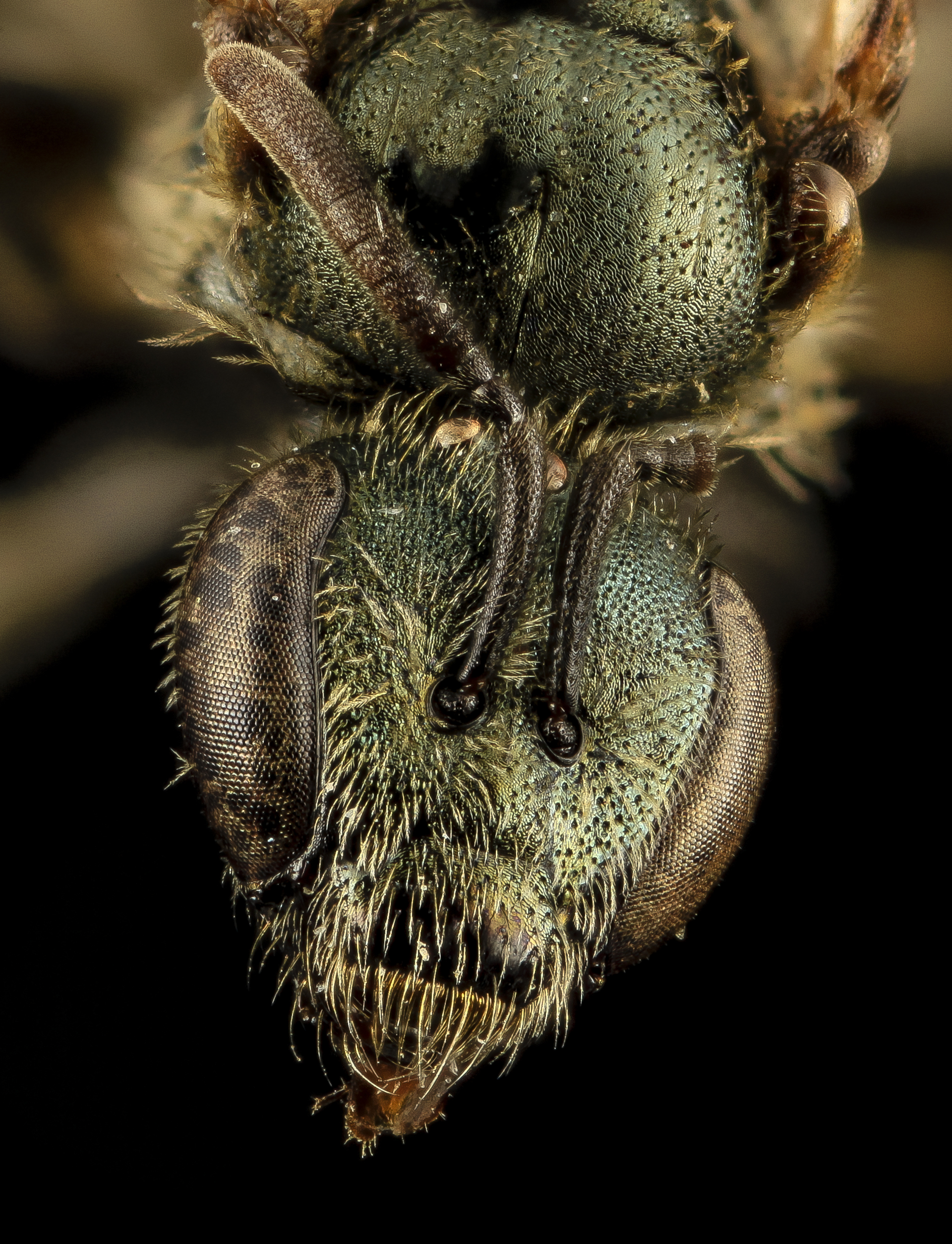 Denny Johnson from Eau Claire County in Wisconsin provided this specimen. Another Lasioglossum and one that was until recently cleared up by Jason Gibbs involved in thousands of misidentifications...many by myself. Photography by Brooke Alexander Canon Mark II 5D, Zerene Stacker, Stackshot Sled, 65mm Canon MP-E 1-5X macro lens, Twin Macro Flash in Styrofoam Cooler, F5.0, ISO 100, Shutter Speed 200, link to a .pdf of our set up is located in our profile